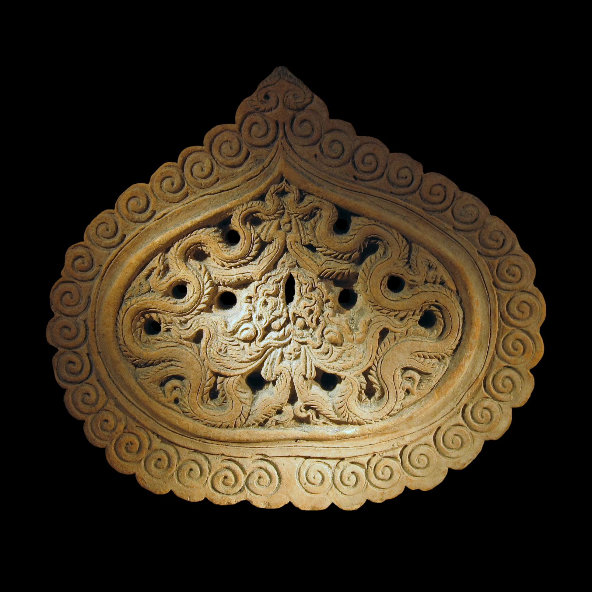 Bodhi leaf with dragon decoration. Terracotta, 13th-14th century CE. Collection Vũ Tấn. National Museum of Vietnamese History, Hanoi.